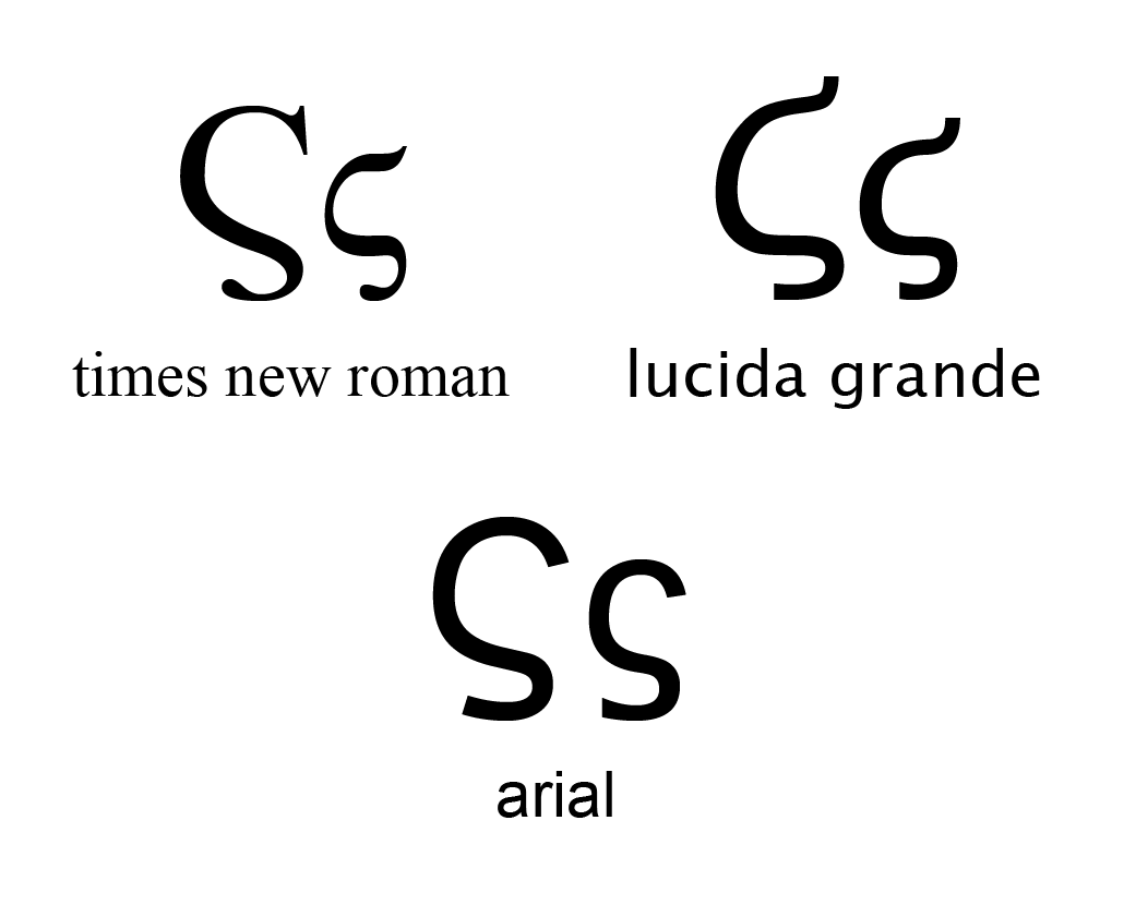 The Greek ligature stigma in three common fonts.